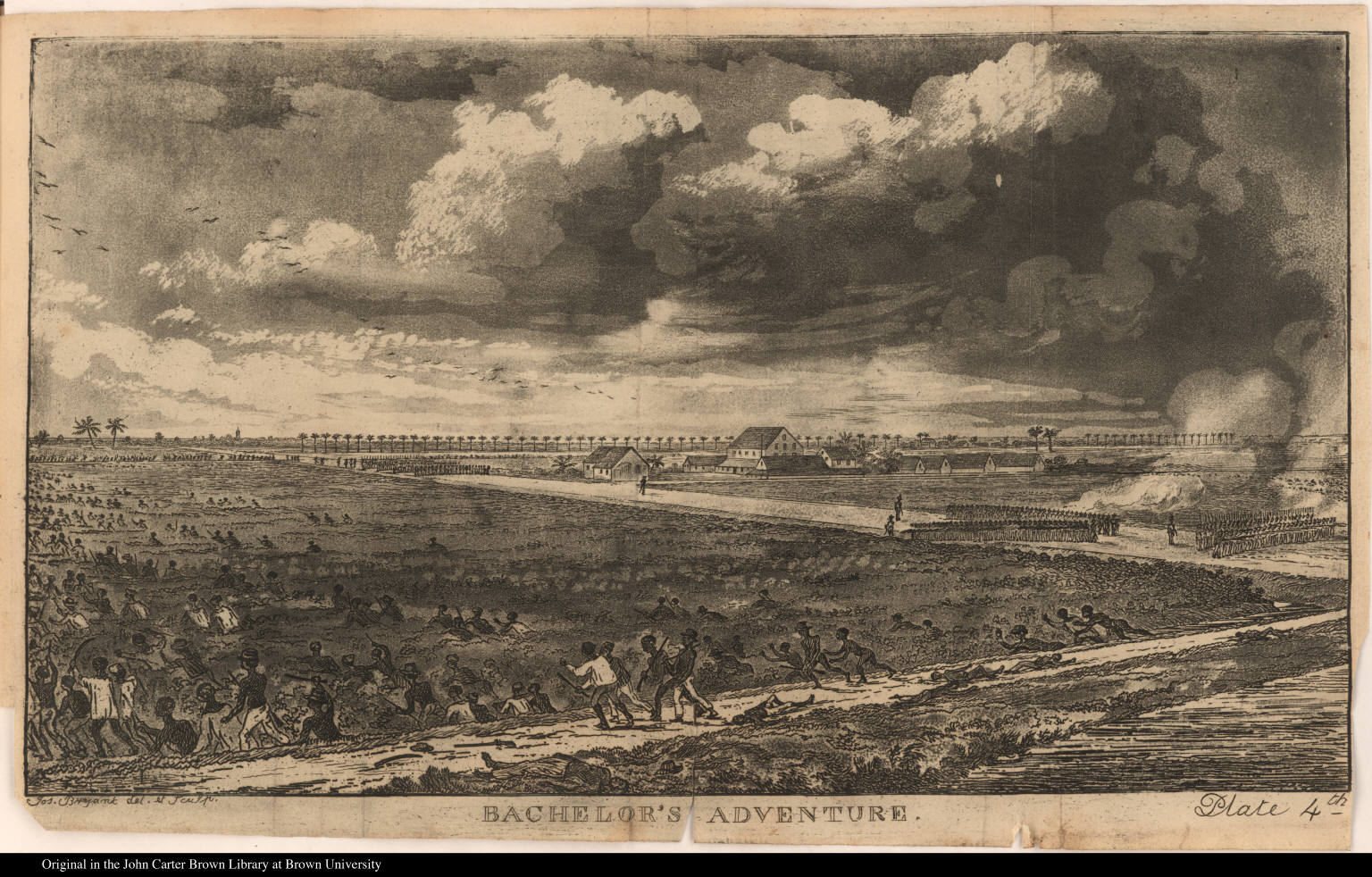 Account of an insurrection of the negro slaves in the colony of Demerara, which broke out on the 18th of August, 1823. (Bachelor's Adventure) Blacks (slaves) run across a plain while some lie dead on a dam. Three groups of European soldiers stand in formation on a road. Includes canal, dwellings, guns or muskets, and swords.